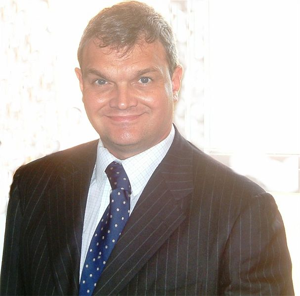 Man in pinstripe suit